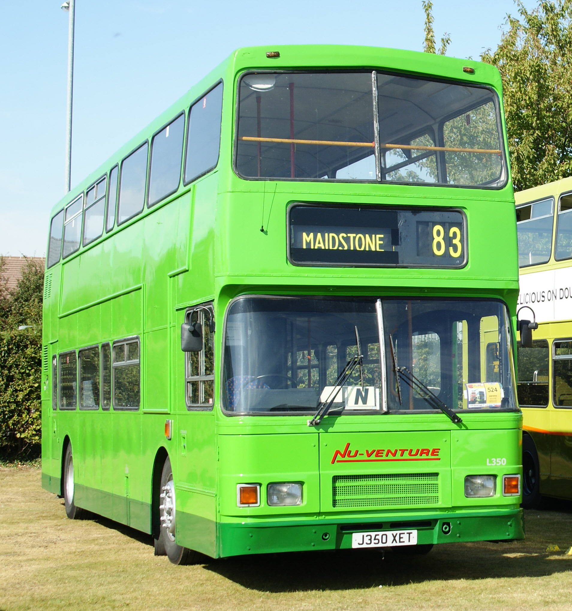 Nu-Venture bus L350 (reg. J350 XET), a 1991 Leyland Olympian double-decker with Alexander RL bodywork, pictured at Showbus 2009. It was new to East Midland as their coach seated fleet no. 350.